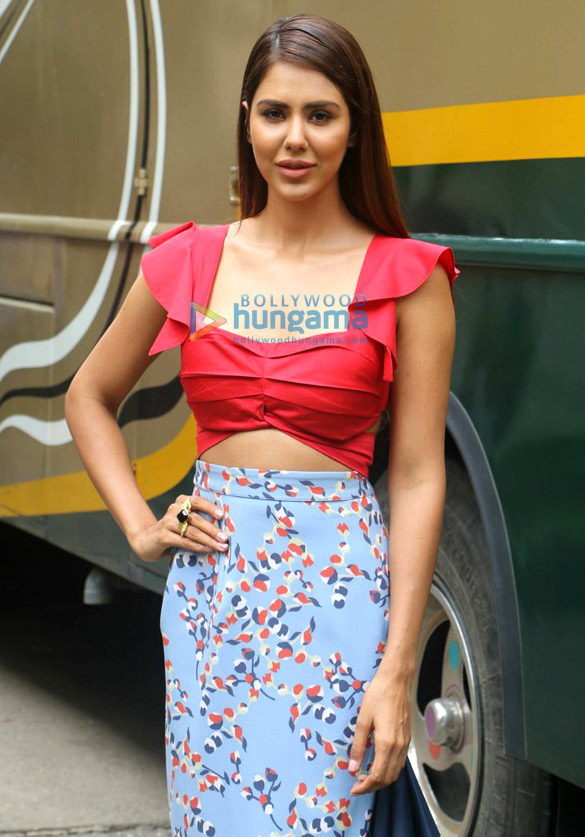 Bajwa promotes her film Super Singh on the sets of dance reality show Nach Baliye 8 in Mumbai